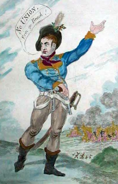 James Gillray's 1798 cartoon of Henry Grattan. Common mass-produced print. For the page Erin go bragh to illustrate the use of the phrase by English-speakers before 1800.